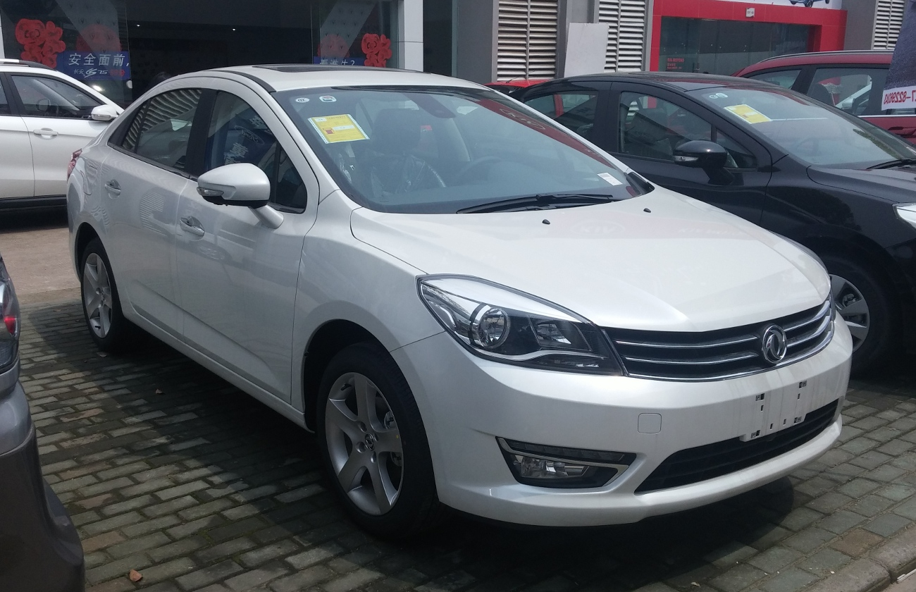 Dongfeng Fengshen L60 photographed in Wuhan, Hubei province, China.